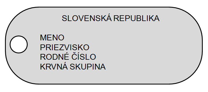 Scheme of "Dog Tag" (oficially "Identification Tag") used by the Armed Forces of the Slovak Republic in accordance with Staff regulation no. 4/2006 (Ministry of Defence Bulletin, Sec. 16, May 10, 2006)